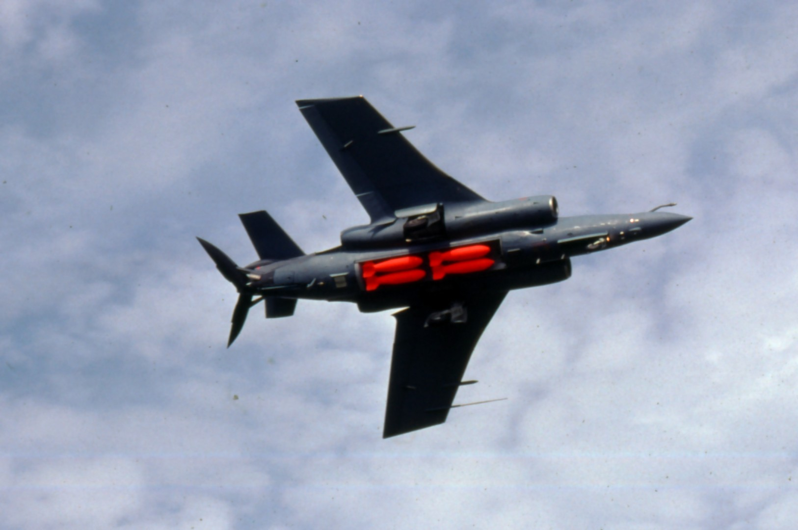 Buccaneer no. 422 at AFB Waterkloof during SAAF 60